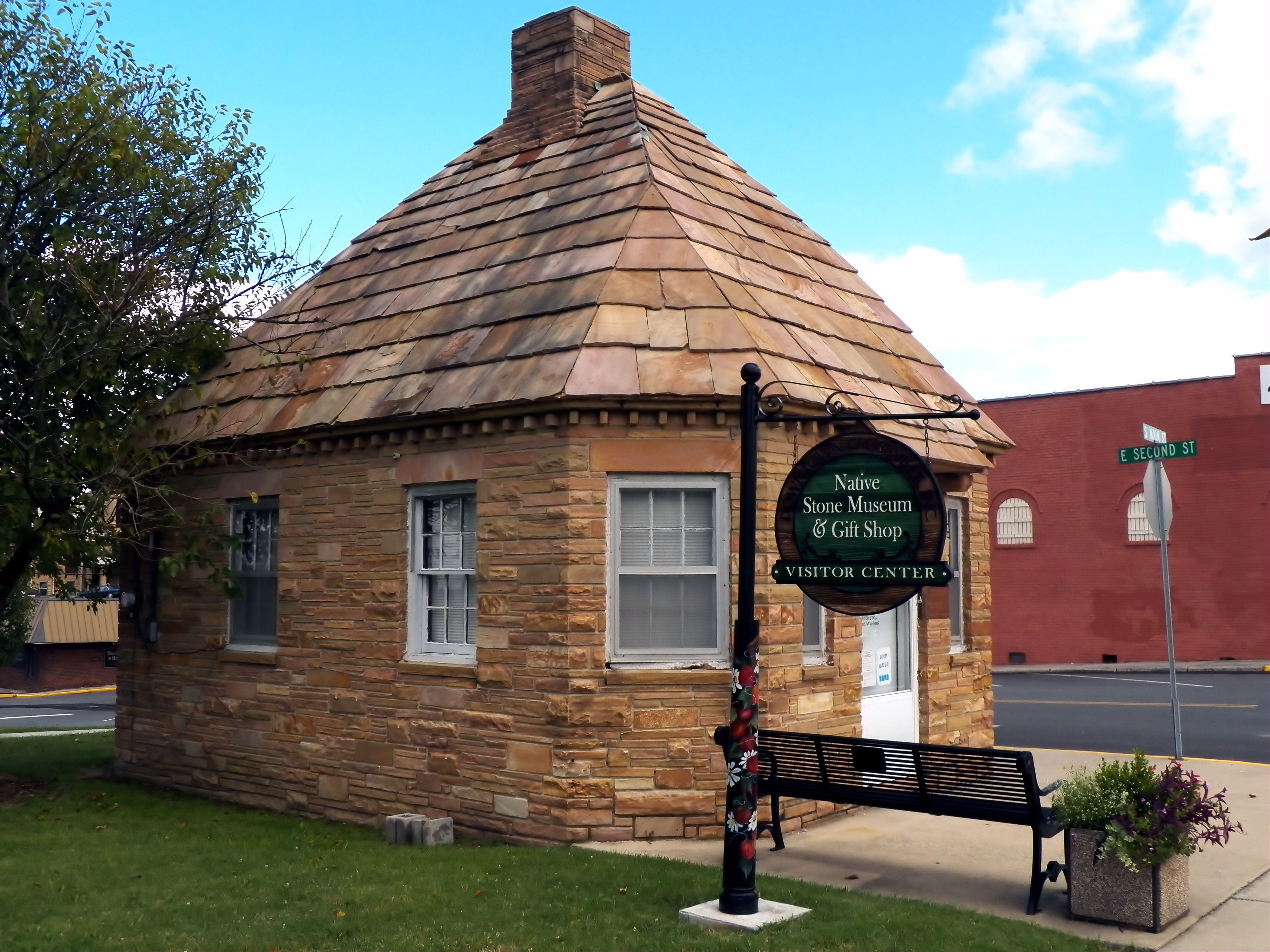 This little hut now serves as the Native Stone Museum & Gift Shop.